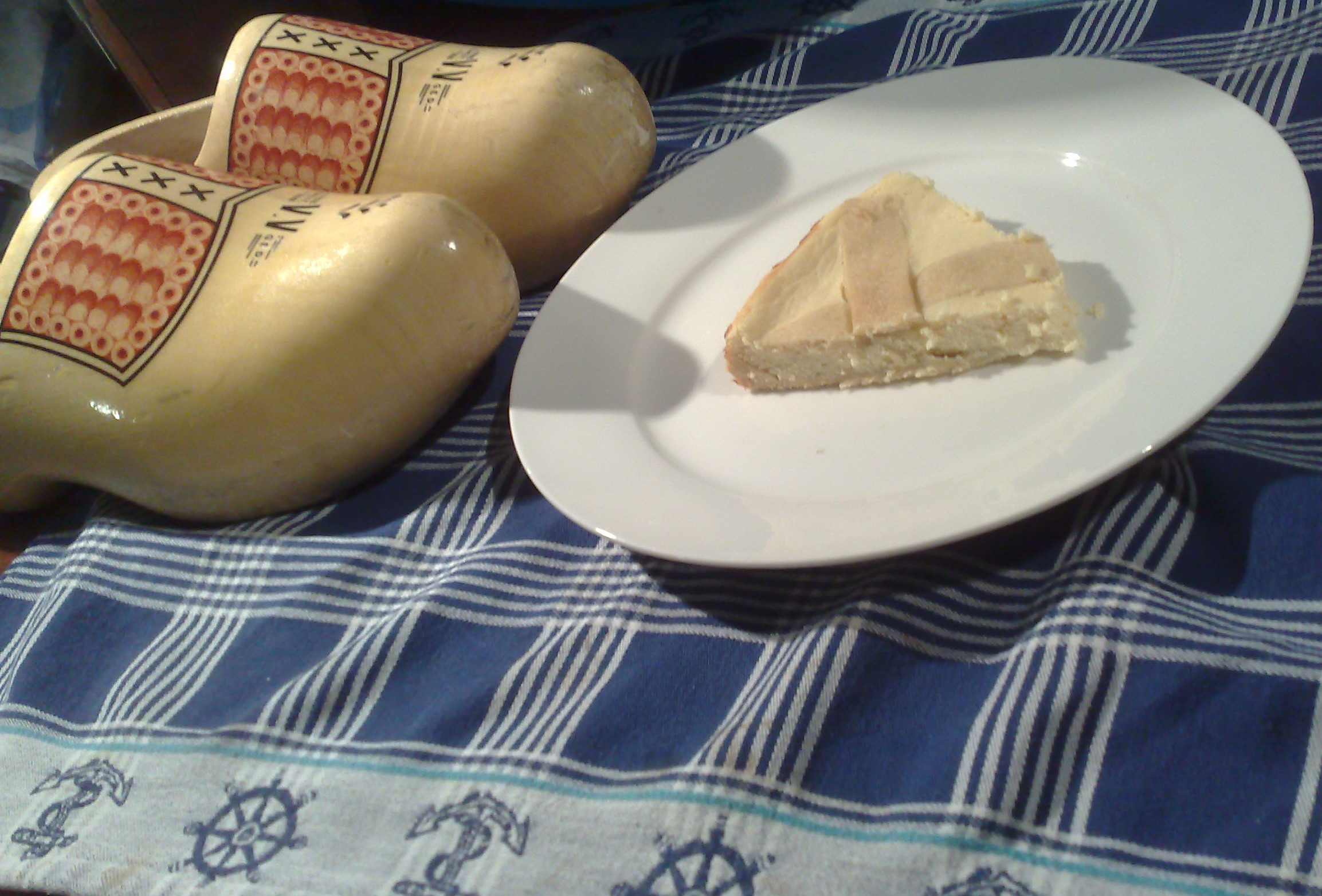 Piece of Dutch Crostata